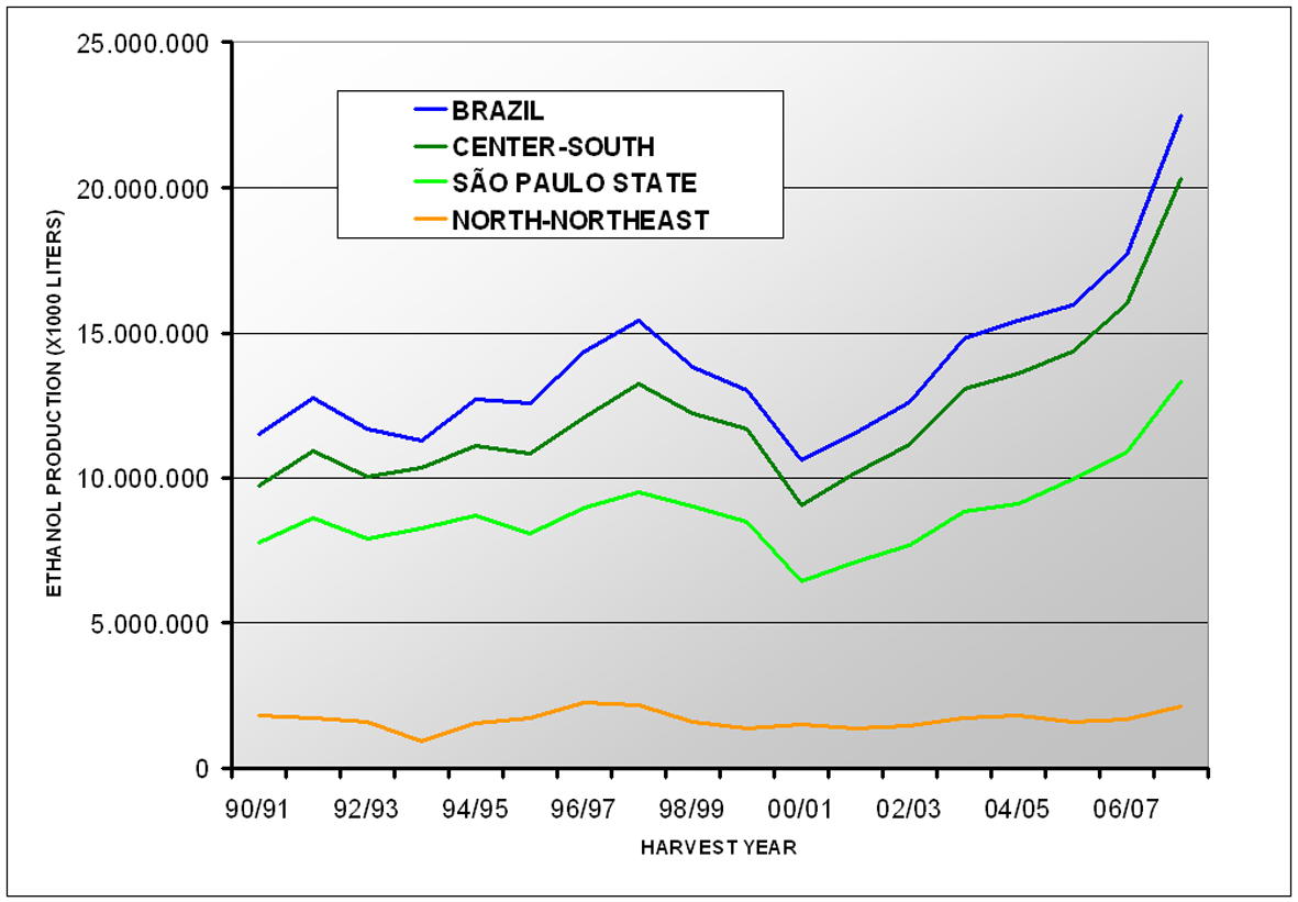 Historical series 90/91 to 2007/08 of ethanol production in Brazil by harvest year by region. Graph created with public data from União da Indústria de Cana-de-açúcar/UNICA e Ministério da Agricultura, Pecuária e Abastecimento/MAPA. Available at UNICA's website Created with Excel and converted to PNG with Photoshop Elements